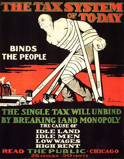 A Georgist propaganda poster produced by Carmen Thompson for The Public, a Chicago magazine. The poster features a man bound by "the tax system of today," which ties him to various industrial properties. The text reads: "The tax system of to-day binds the people. The single tax will unbind by breaking land monopoly, the cause of idle land, idle men, low wages, high rent. Read The Public. The poster's sale is mentioned in the December 10, 1915 edition of The Public.